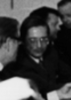 OMB Director James T. Lynn.